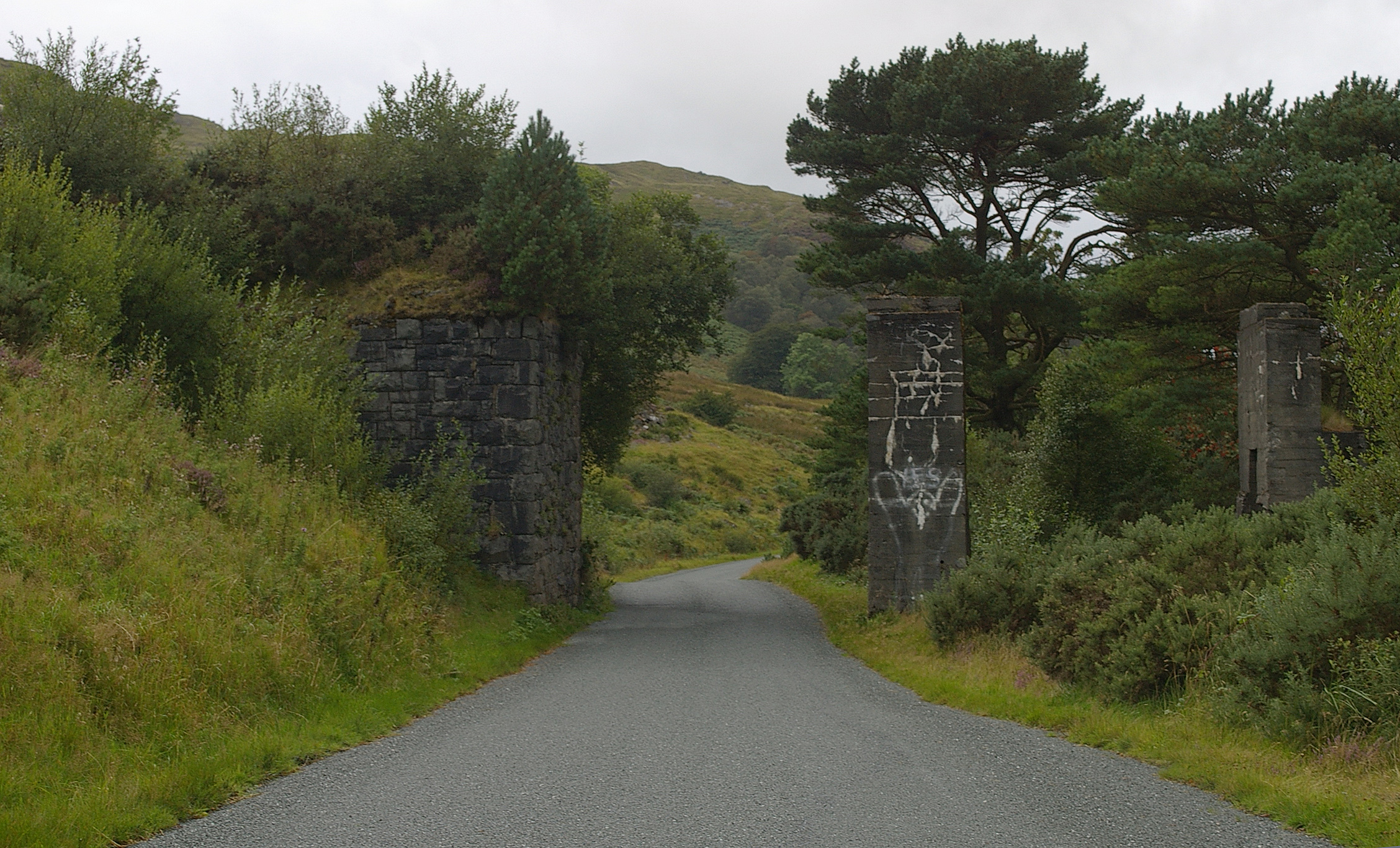 Remains of a bridge over the road for the Bala and Ffestiniog Railway near Llyn Celyn. I think this is for a tramway rather than the railway itself.